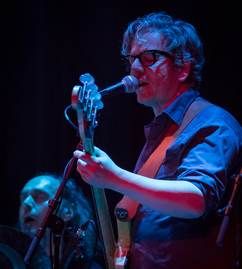 Bendik Hofseth Band at the stage of Cosmopolite. The concert took place on 10. May 2017 in Oslo. The concert consisted of the original line-up from Hofseth's 1991 album "IX".Lineup:Bendik Hofseth (saxophone)Paolo Vinaccia (drums)Eivind Aarset (guitar)Knut Reiersrud (guitar)Audun Erlien (bass guitar)Øystein Sevåg (keyboard)Reidar Skår (keyboard)